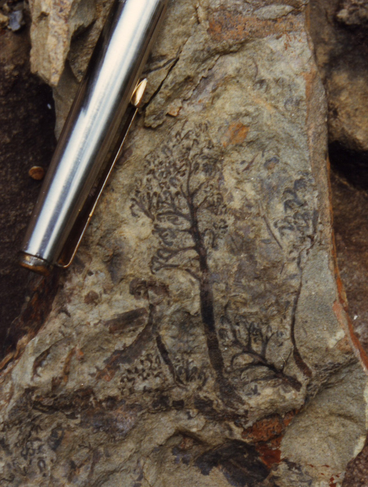 Example of Wattieza casasii found in Campo Chico Formation (middle Devonian), Perija range, Venezuela.